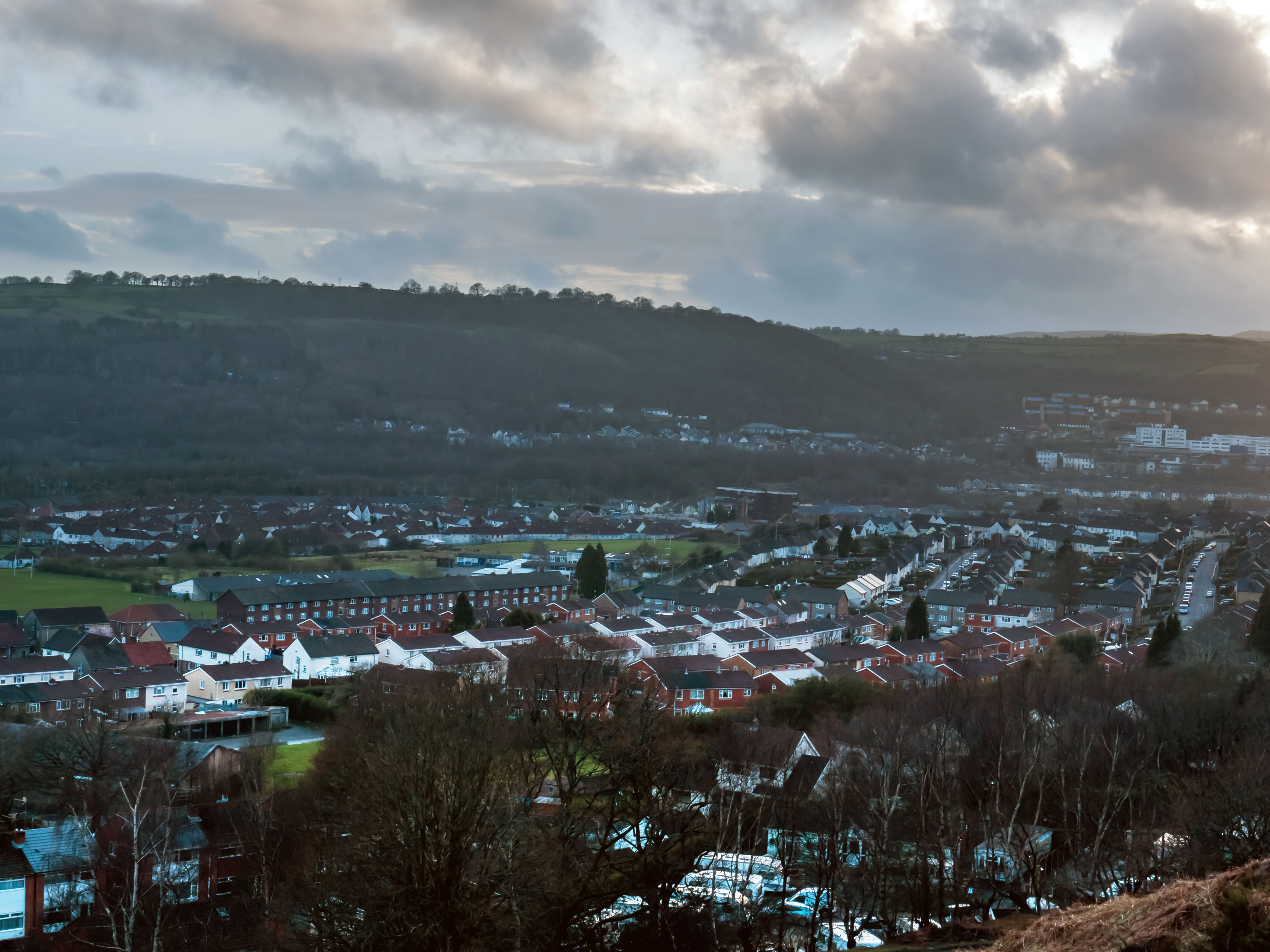 A view of Rhydyfelin in South Wales from the hill below Eglwysilan